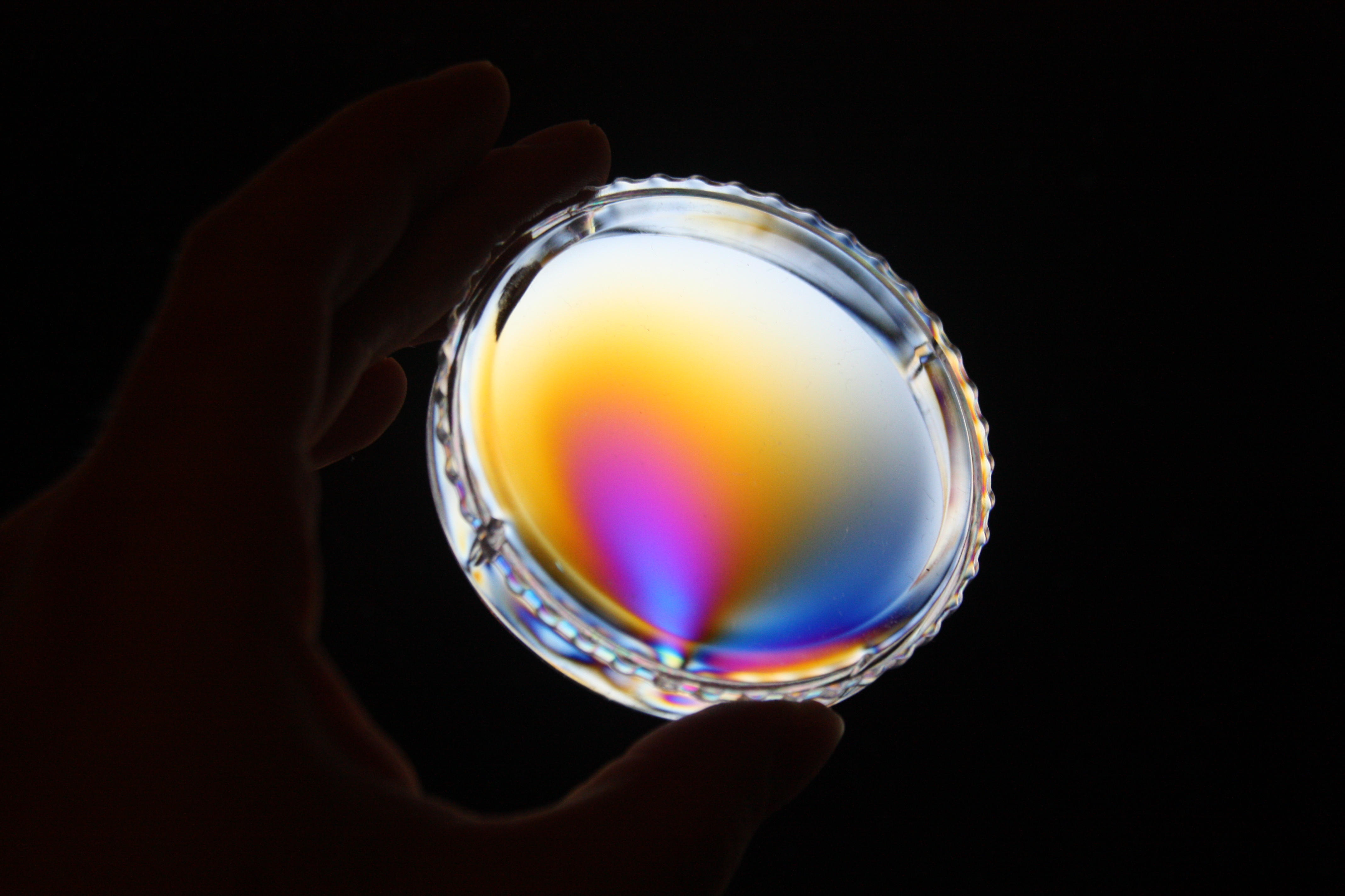 Stress induced birefringence in plastic. The rainbow coloured fringes become visible when illuminated with polarised light and photographed through a crossed polariser.